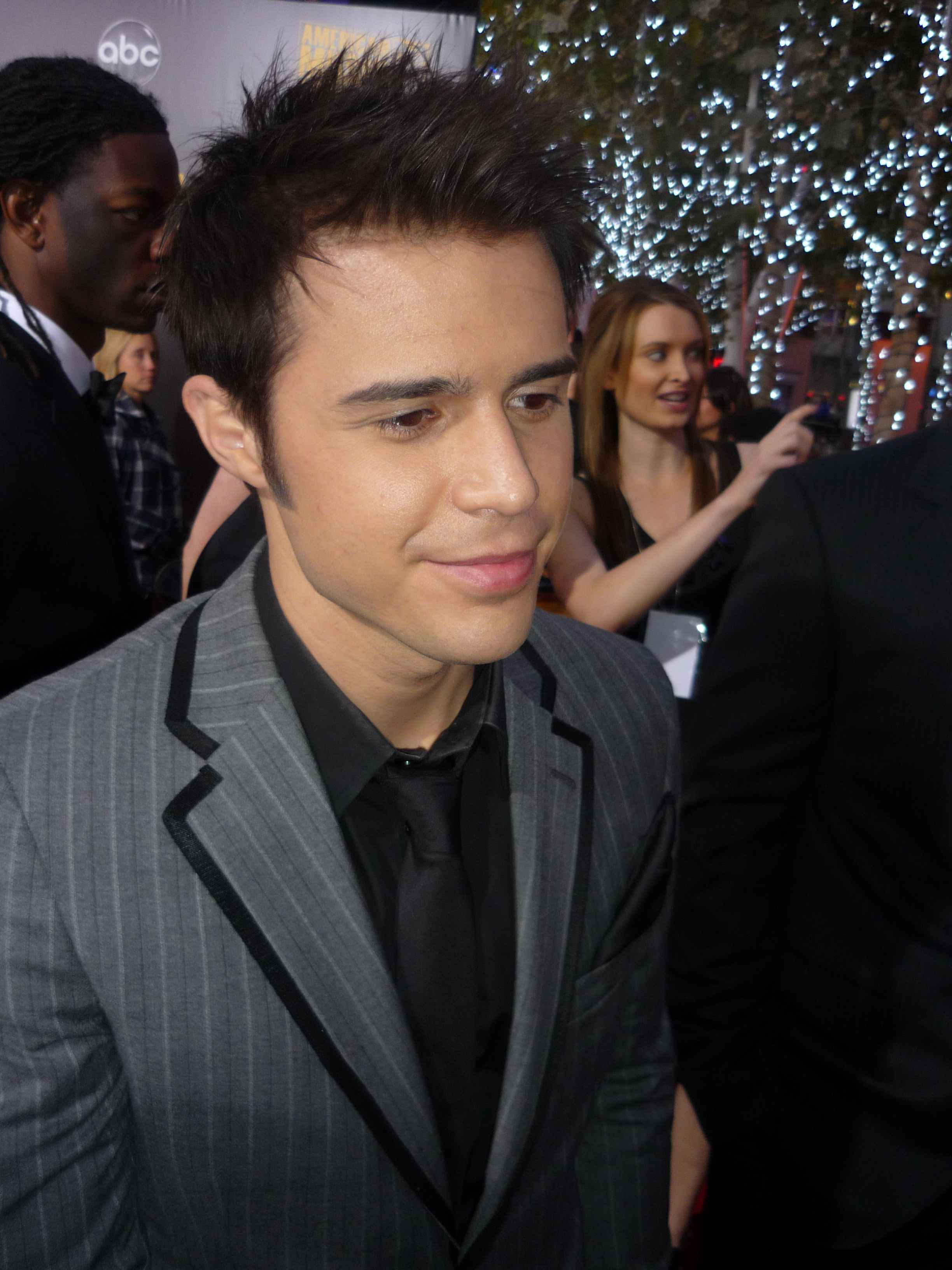 Kris Allen at the 2009 American Music Awards